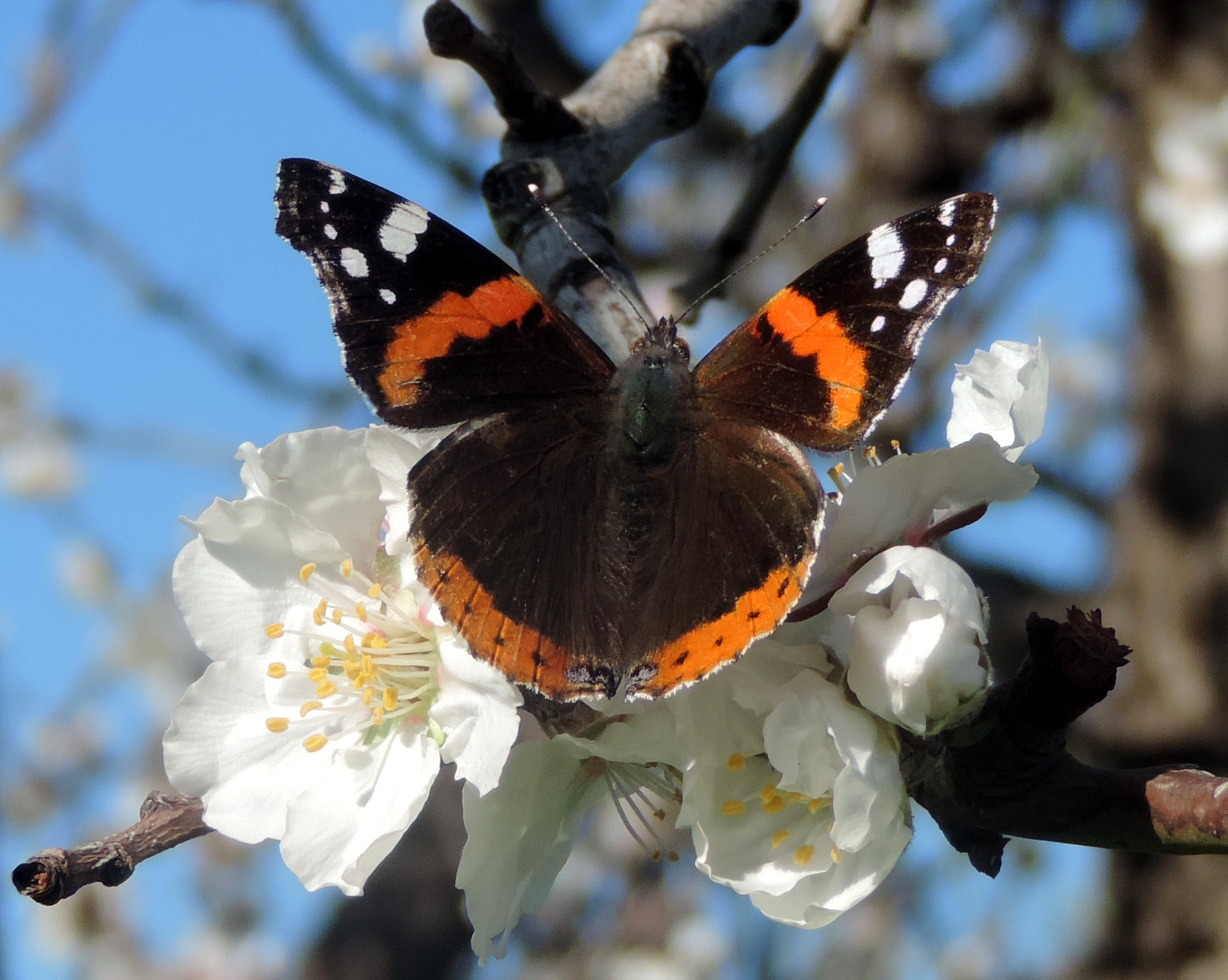 This is a photography of Natura 2000 protected area with ID GR4320002